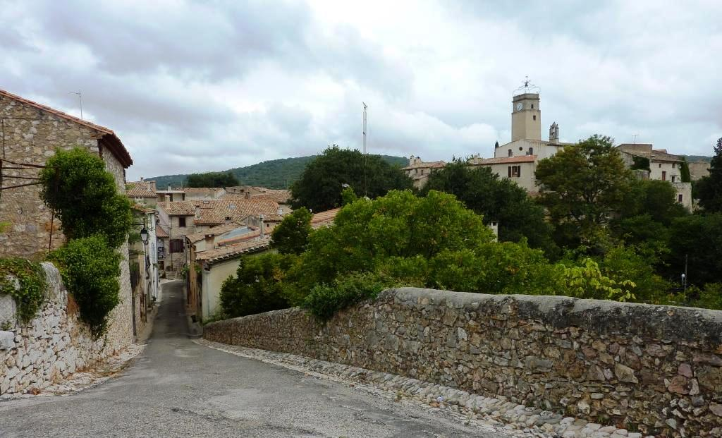 Puéchabon, a village in France, in the department of Hérault